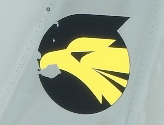 Tail marking of F-15J 22-8809 at the 2016 Iruma Air Show